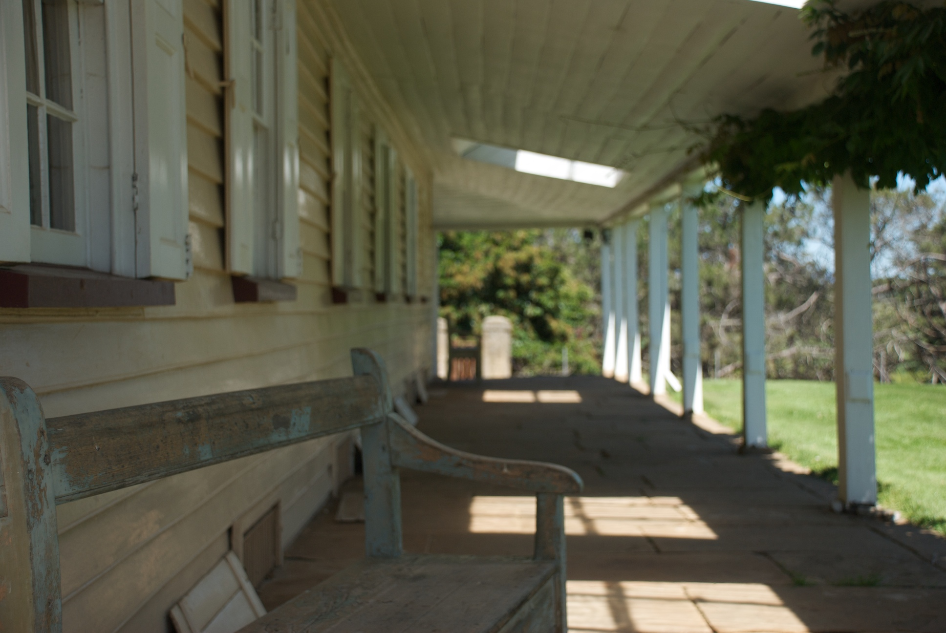 Woolmers, Longford, Tasmania, Australia